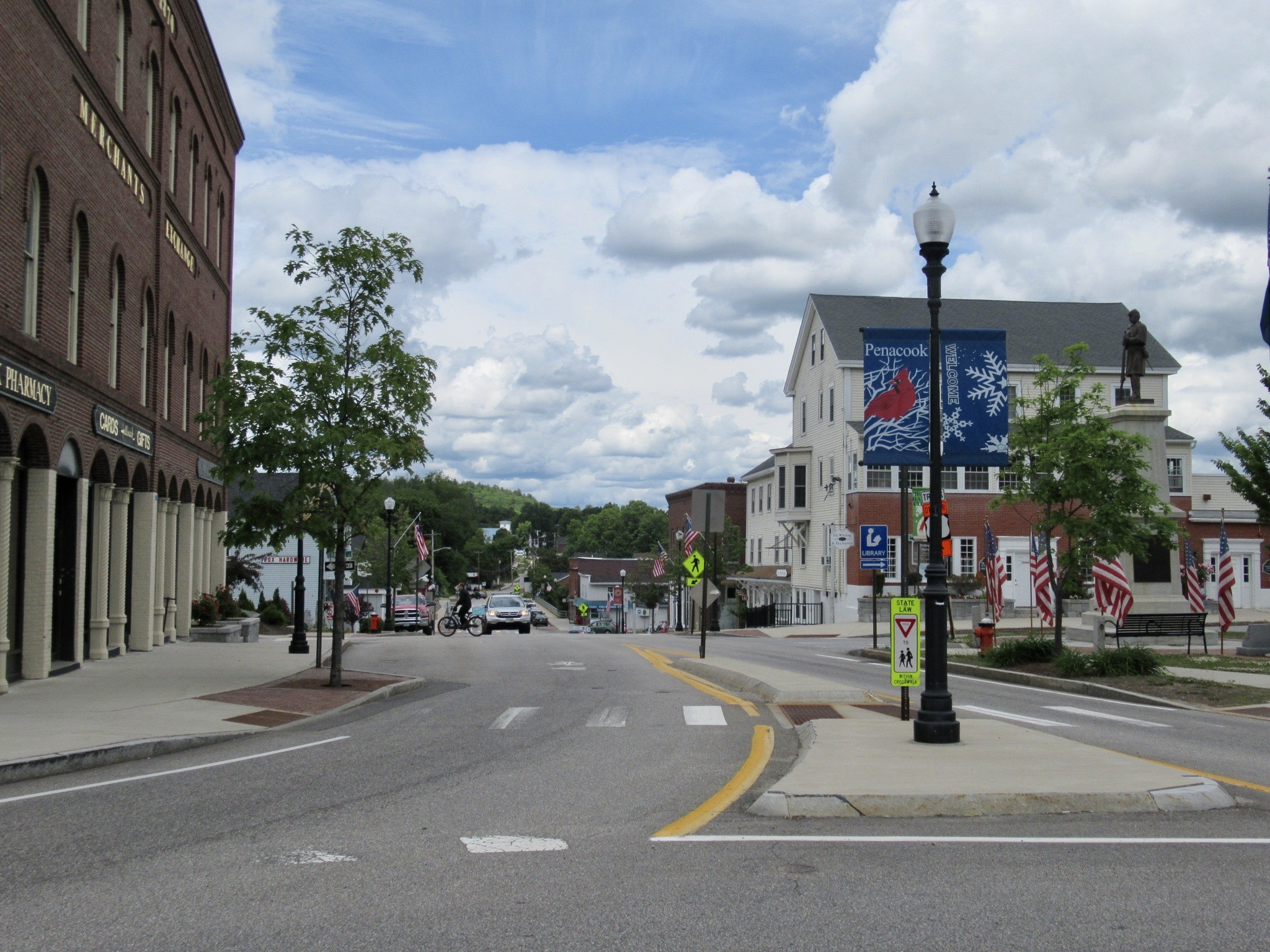 Village Street (U.S. Route 3) in the village of Penacook, Concord, New Hampshire